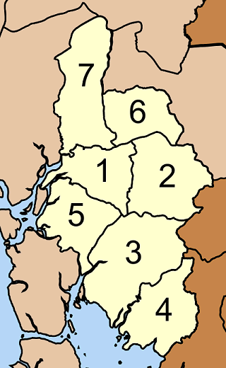 Map of Khlong Thom district, Krabi province, Thailand, with the communes (tambon) numbered. Khlong Thom Tai (คลองท่อมใต้) Khlong Thom Nuea (คลองท่อมเหนือ) Khlong Phon (คลองพน) Saikhao (ทรายขาว) Huai Namkhao (ห้วยน้ำขาว) Phru Din Na (พรุดินนา) Phe La (เพหลา)